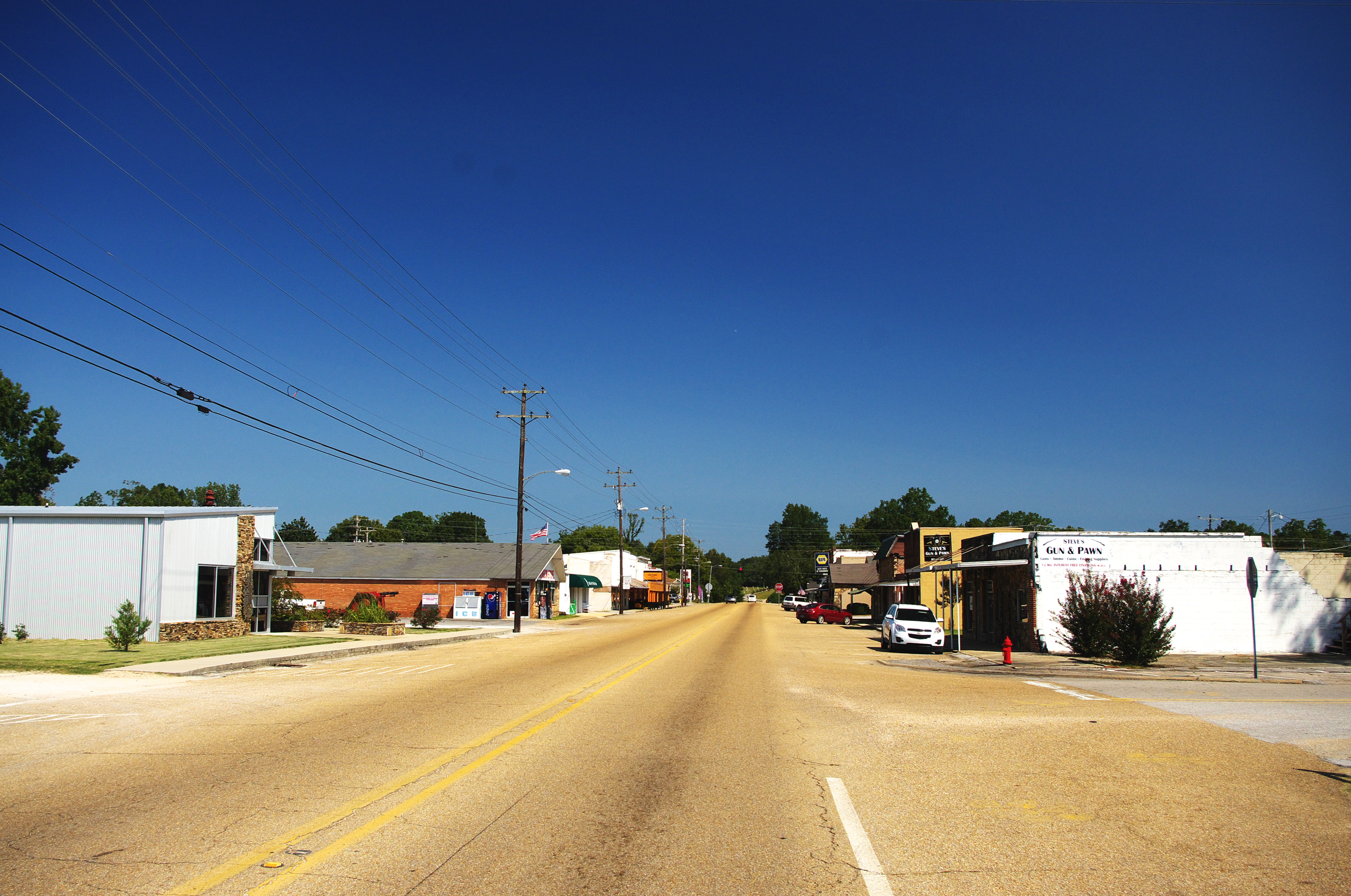 View north along Main Street (Mississippi Highway 25) in Tishomingo, Mississippi, United States.